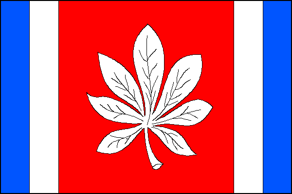 Municipal flag of České Velenice town, Jindřichův Hradec District, Czech Republic.